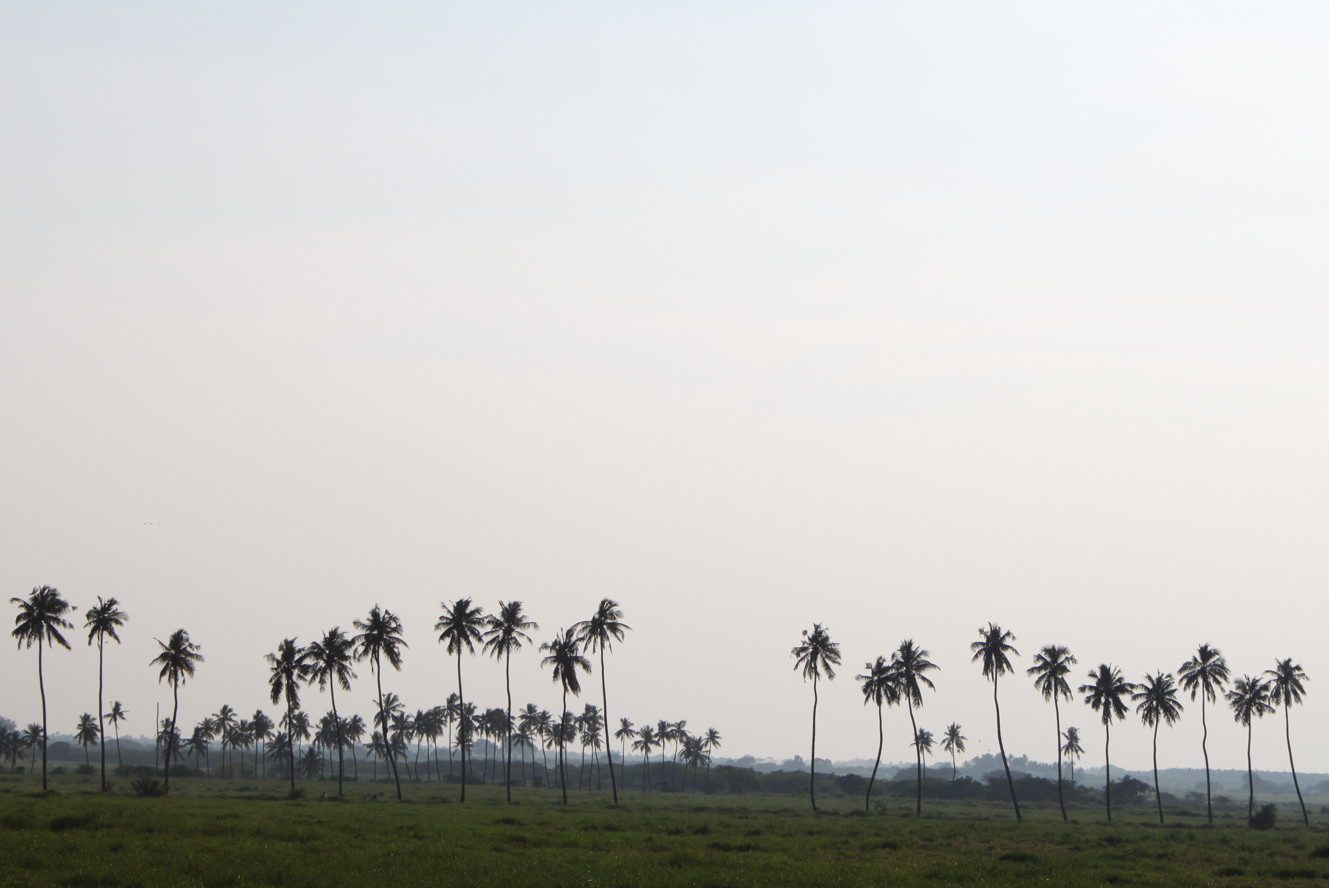 This picture shows a group of Coconut tress found in Avaniapuram, Madurai, near its Water Reservoir.